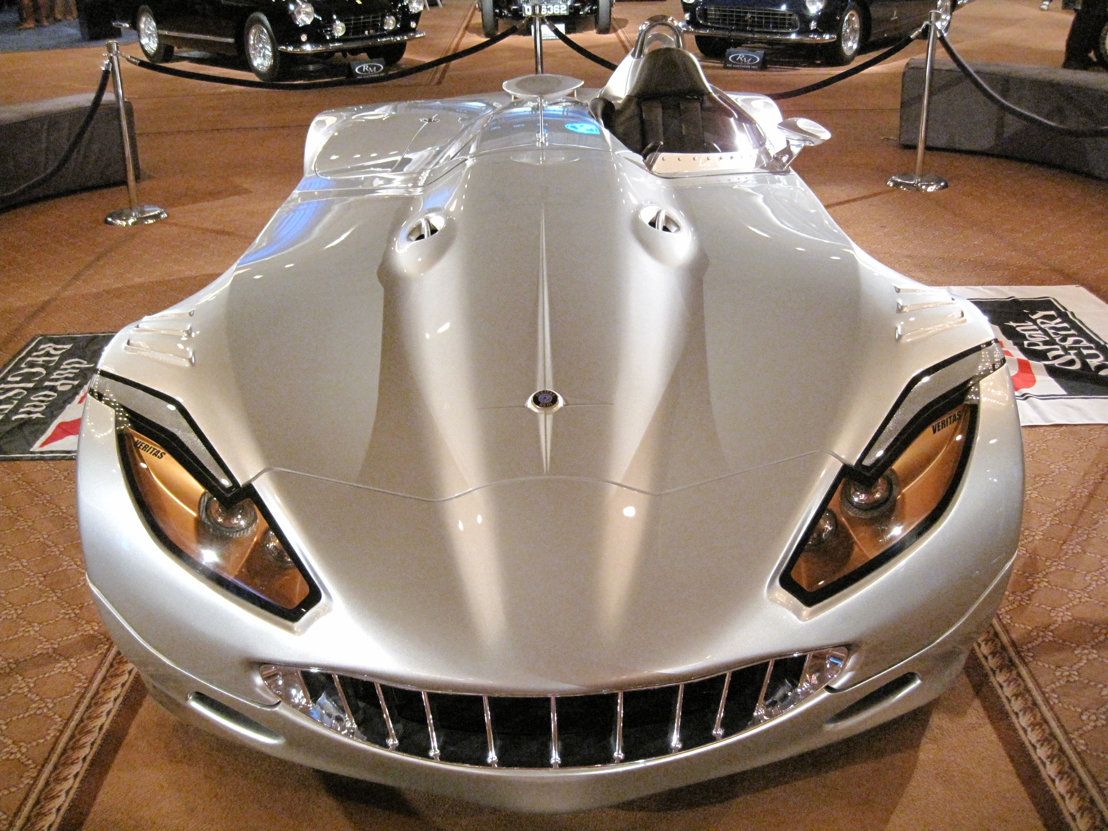 Veritas RS3 / RSIII, shown at Sports & Classics of Monterey - RM AUCTIONS.